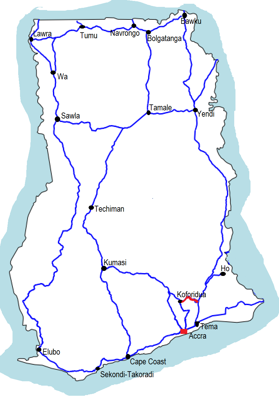 Ghana N3 highway route